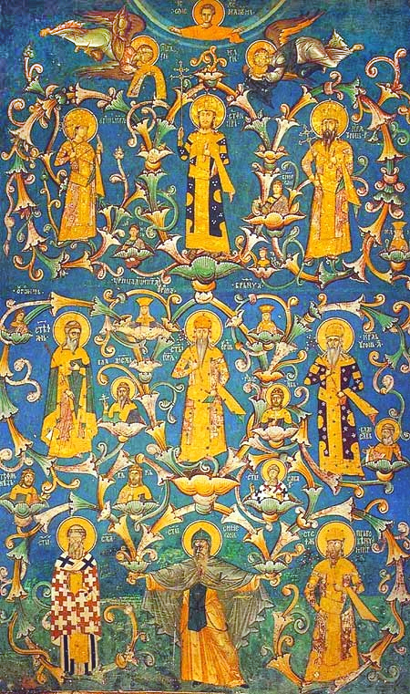 Medieval fresco from Visoki DeÄ ani monastery